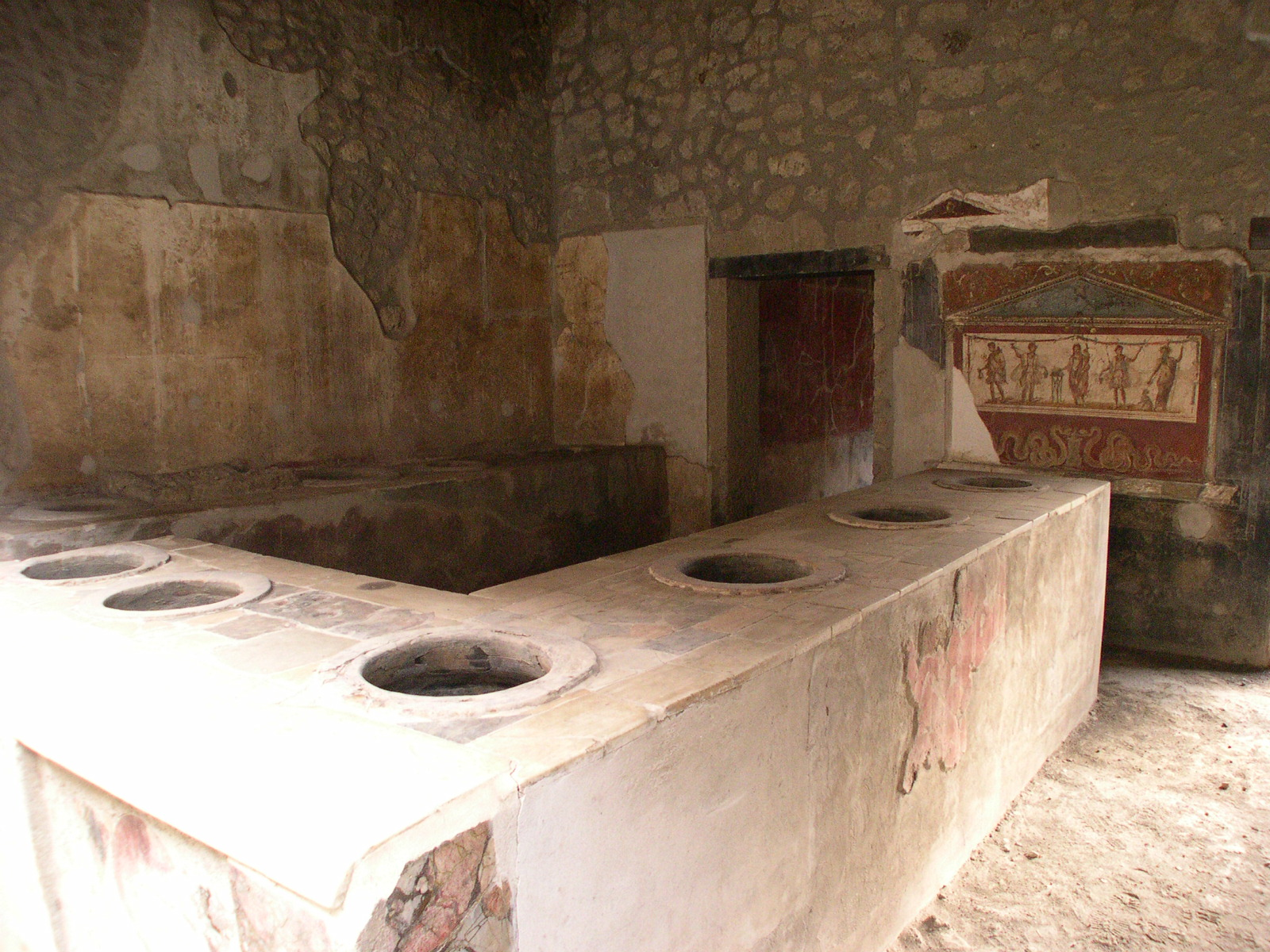 Interior of a thermopolium in Pompeii, Italy.